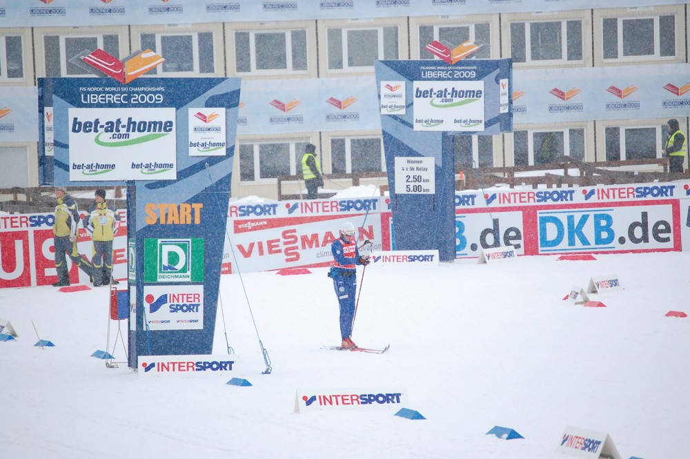 MS 2009 Liberec - Vesec (stadion)